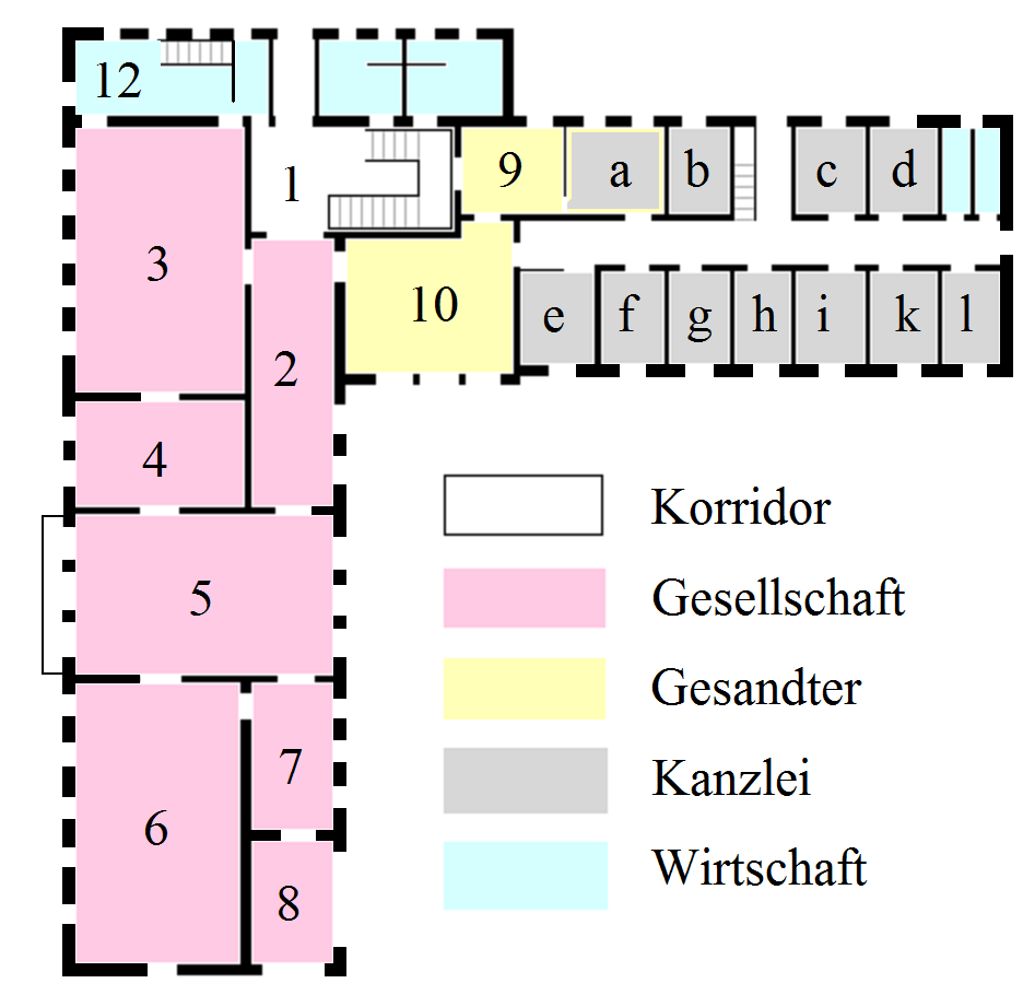 Schematic floor plan of the ground floor of the former Yugoslavian Embassy in Berlin-Tiergarten, Rauchstrasse 17-18, built 1938-40. Not to scale.